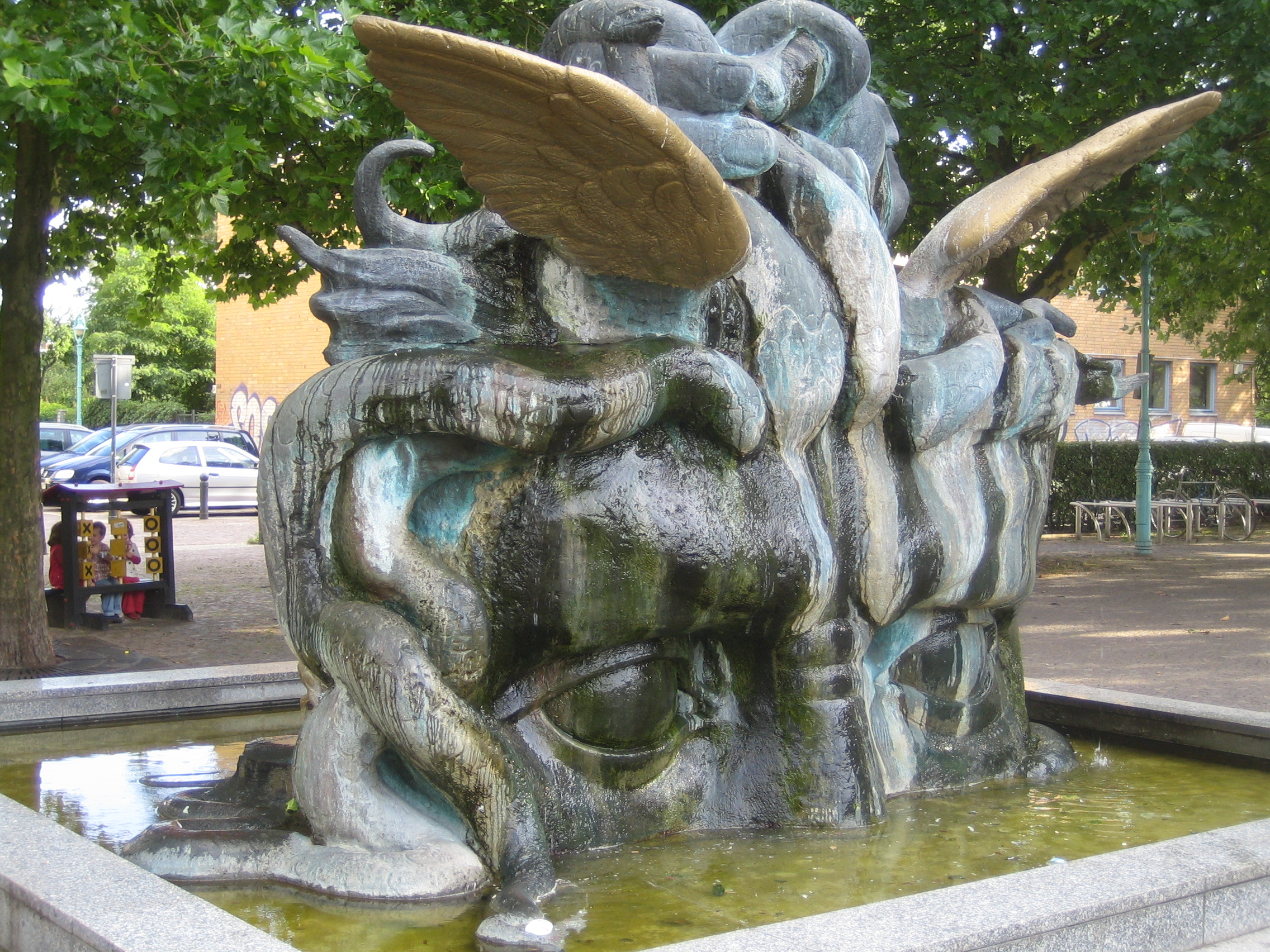 Fountain at Henriettenplatz in Berlin-Charlottenburg (Germany). Theme: The head of Medusa (Caput medusae).